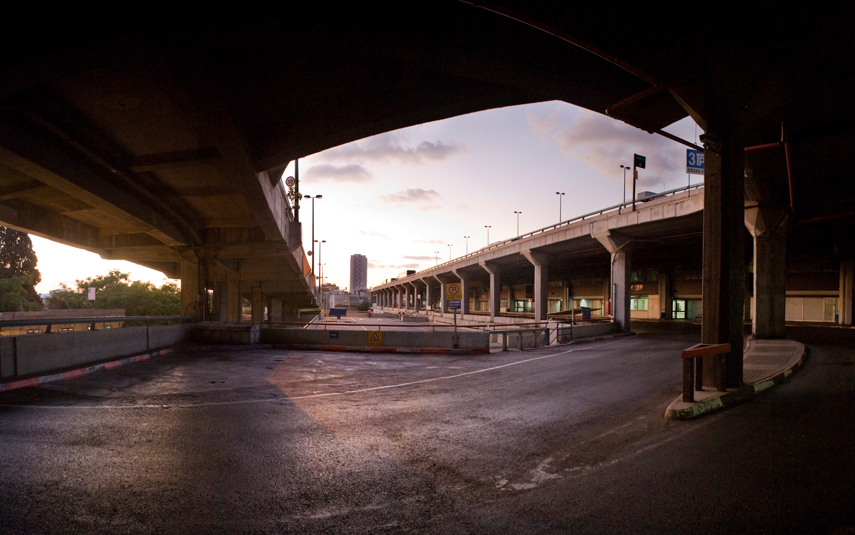 The platform on the fourth floor of the Tel Aviv Central Bus Station, and the boarding platform to the fifth floor.